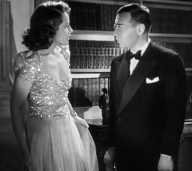 Jayne Regan & Peter Lorre in Thank You, Mr. Moto - trailer (cropped screenshot)